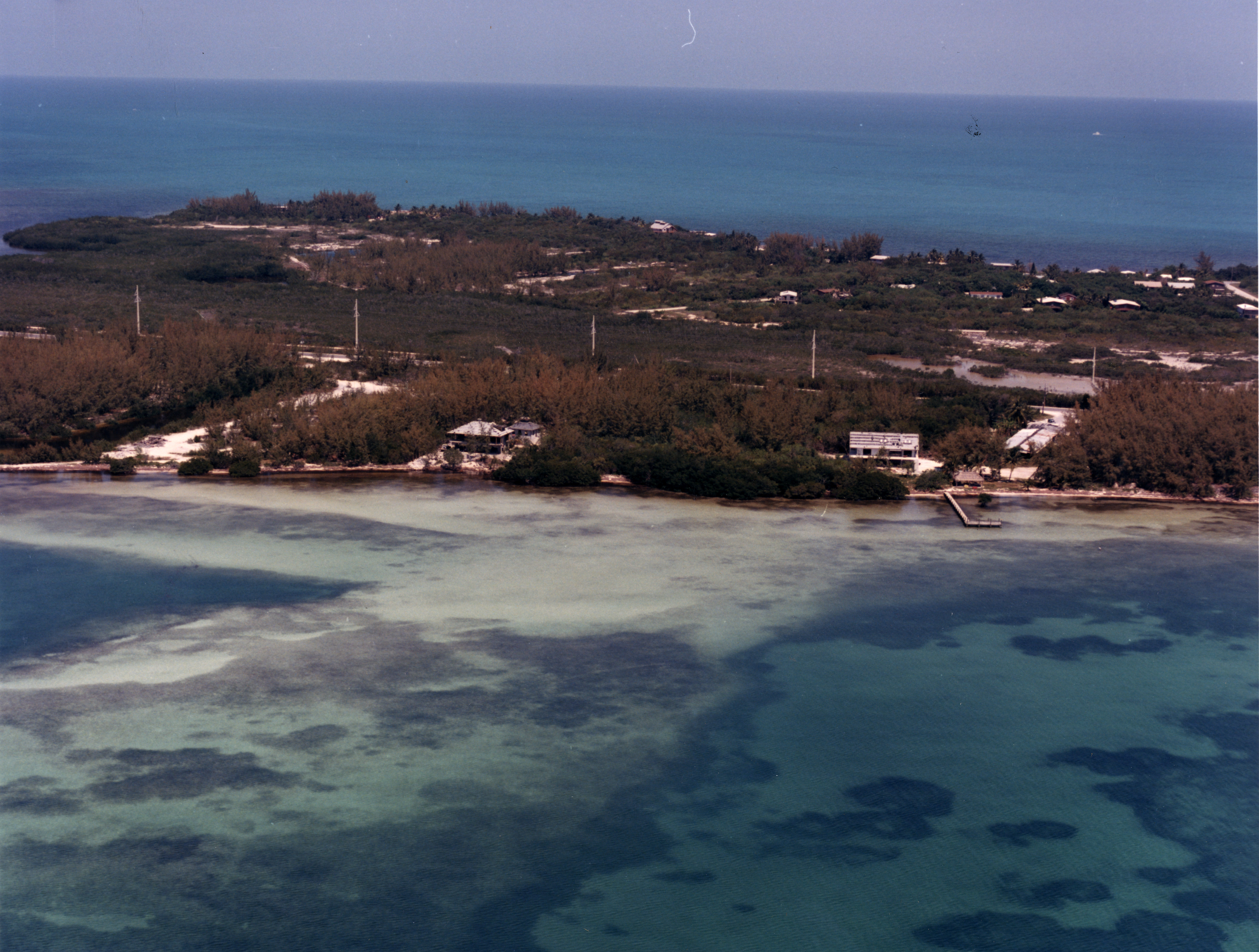 Aerial of Crawl Key. Photo taken by the Federal Government on October 7, 1987. From the Wright Langley Collection.